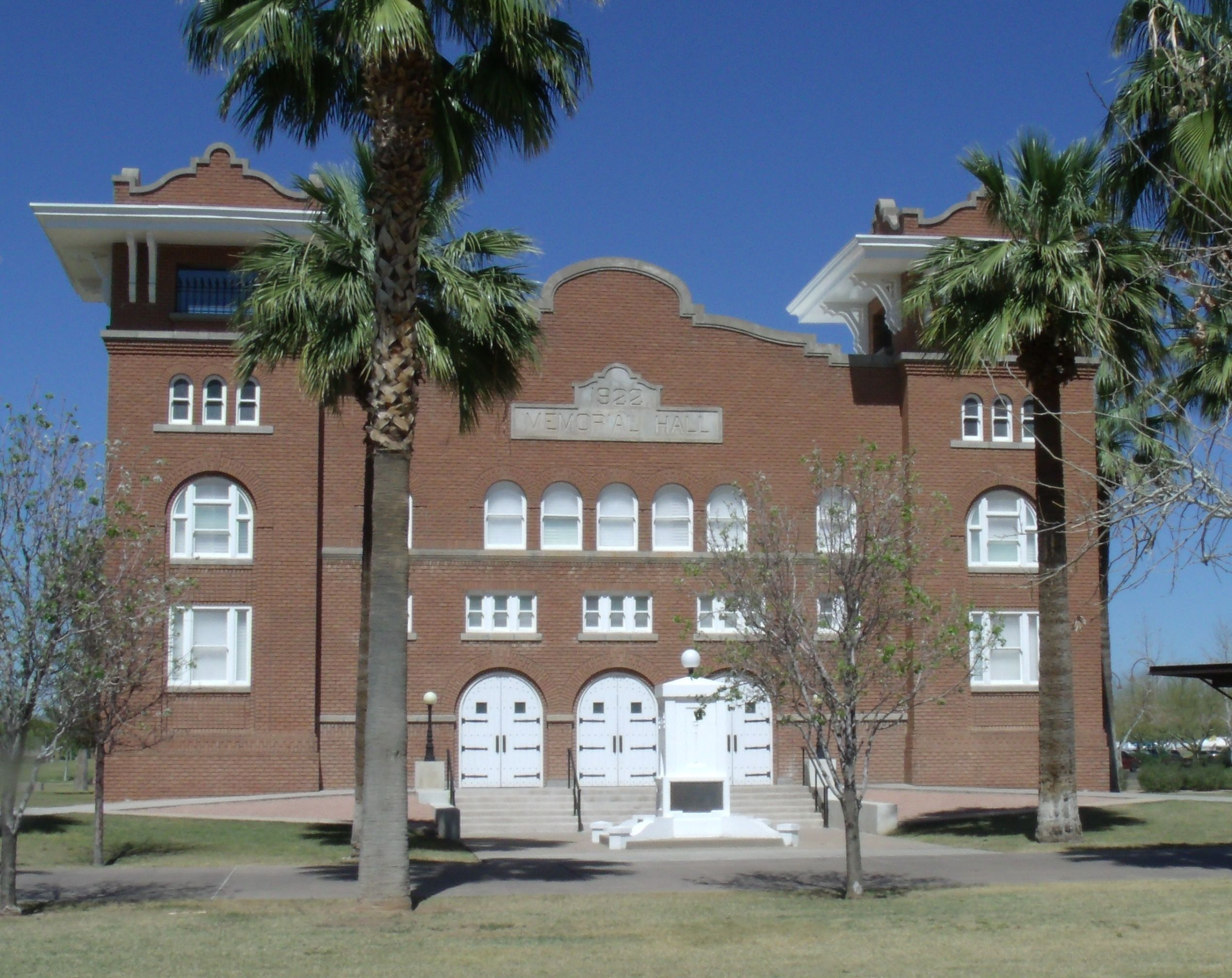 Historic Memorial Hall at the Phoenix Indian School — in Phoenix, Arizona. Built in 1922, on the NRHP.